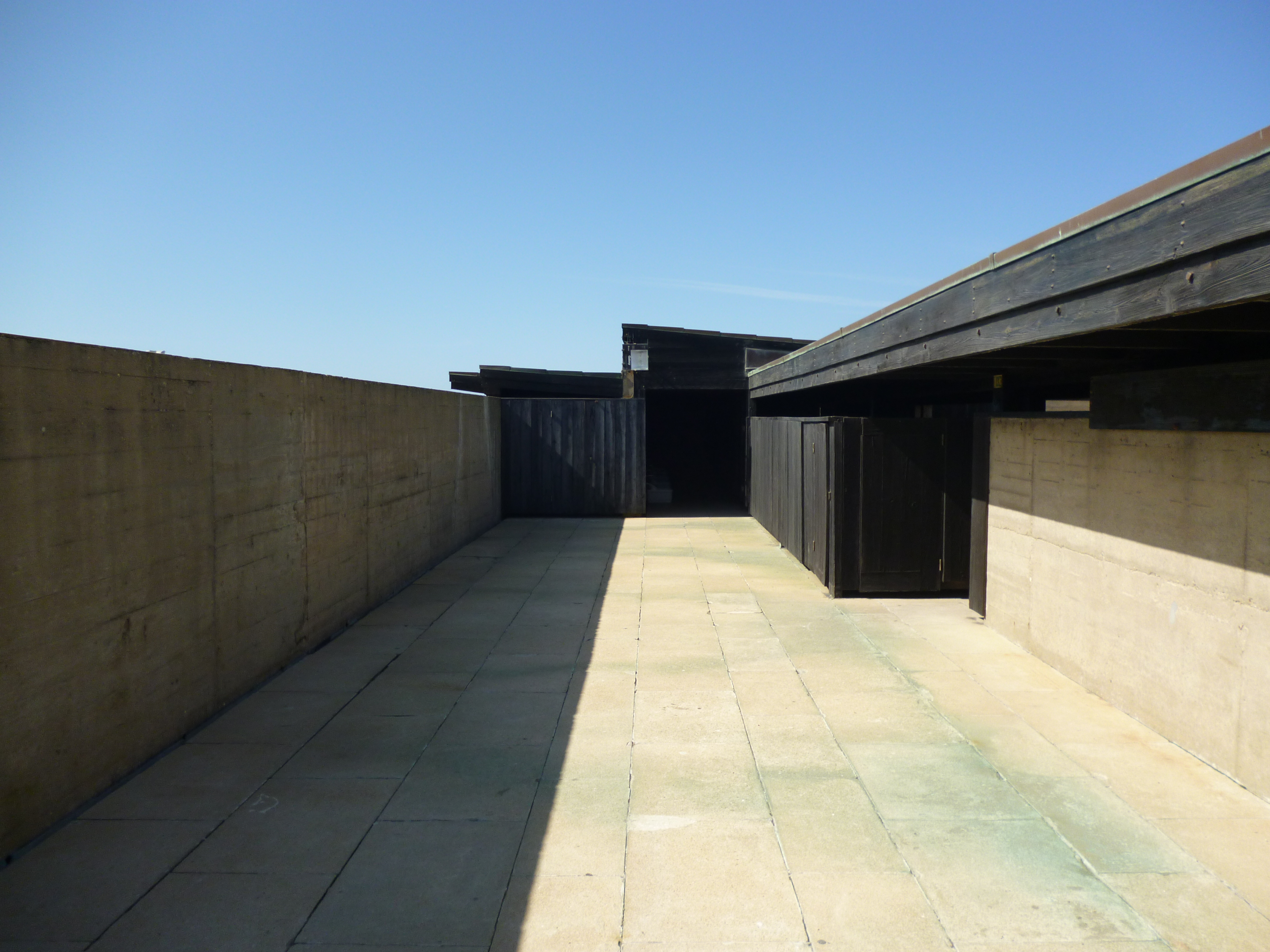 Swimming pools, Leça da Palmeira, Portugal_Architect: Álvaro Siza